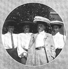 Circa 1904 photograph of the Hezlet family. From left to right: Violet Hezlet, Florence Hezlet, Mrs. Hezlet, and May Hezlet.